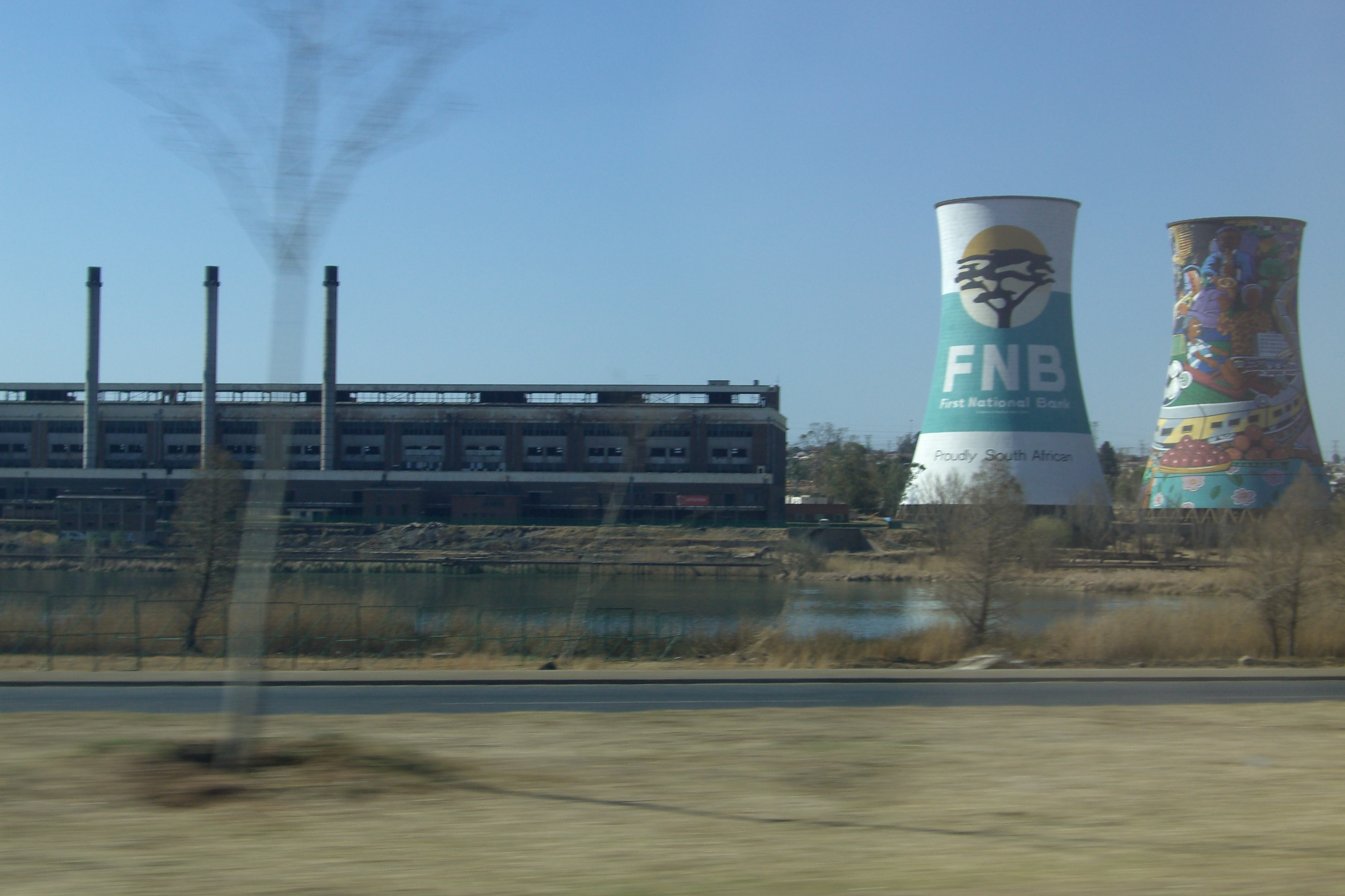 Soweto Cooling Towers